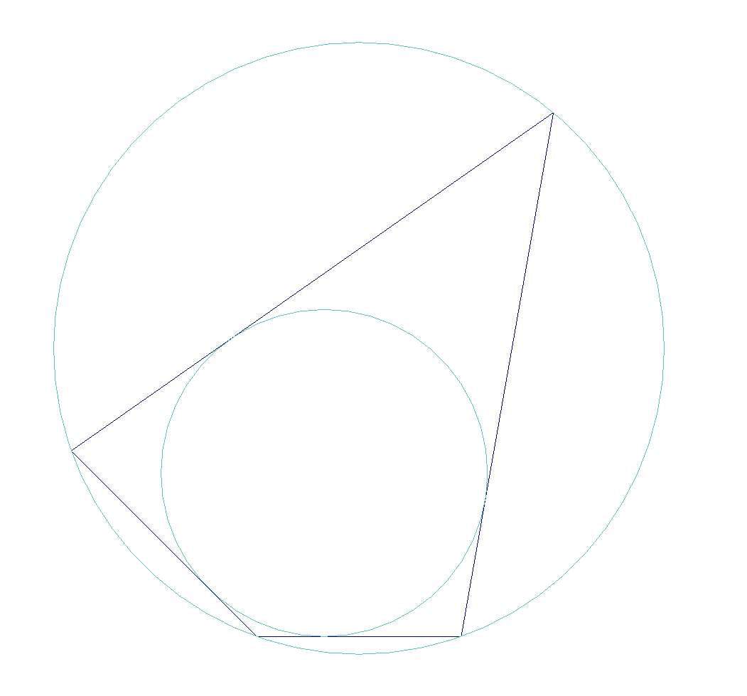 Bicentric quadrilateral.